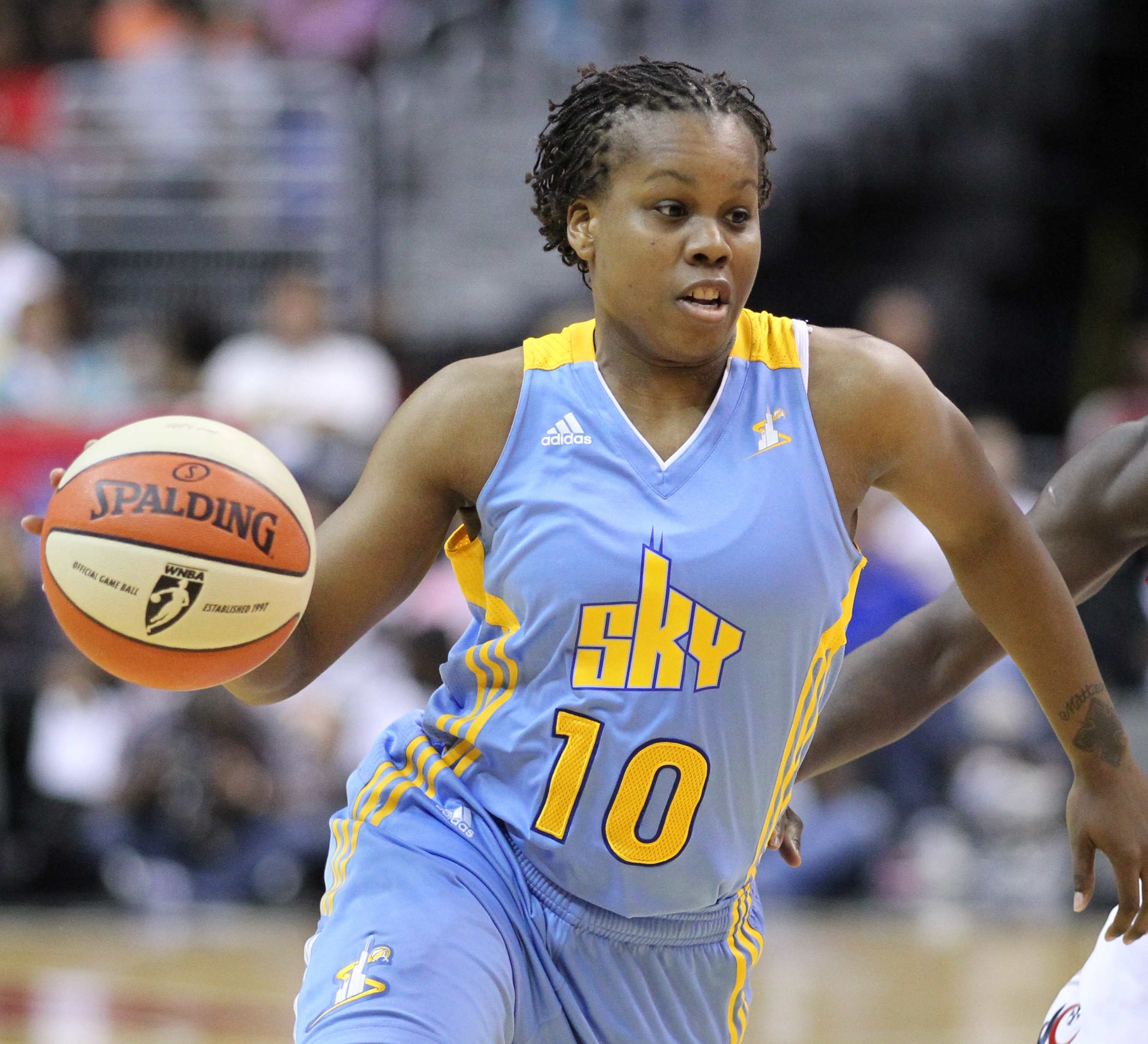 Epiphanny Prince of the Chicago Sky (at time of photo)